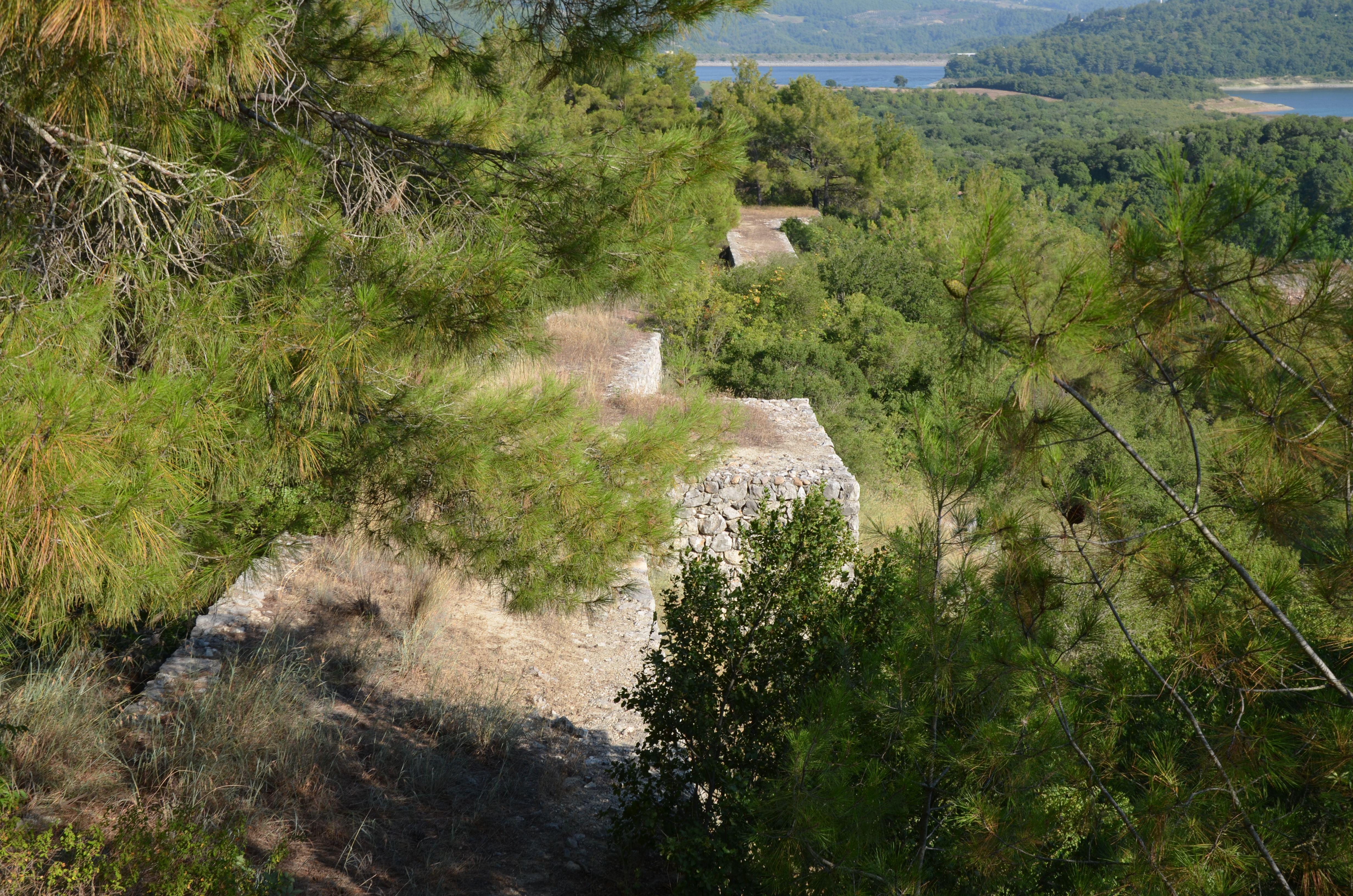 Karatepe Hittite Fortress, Turkey